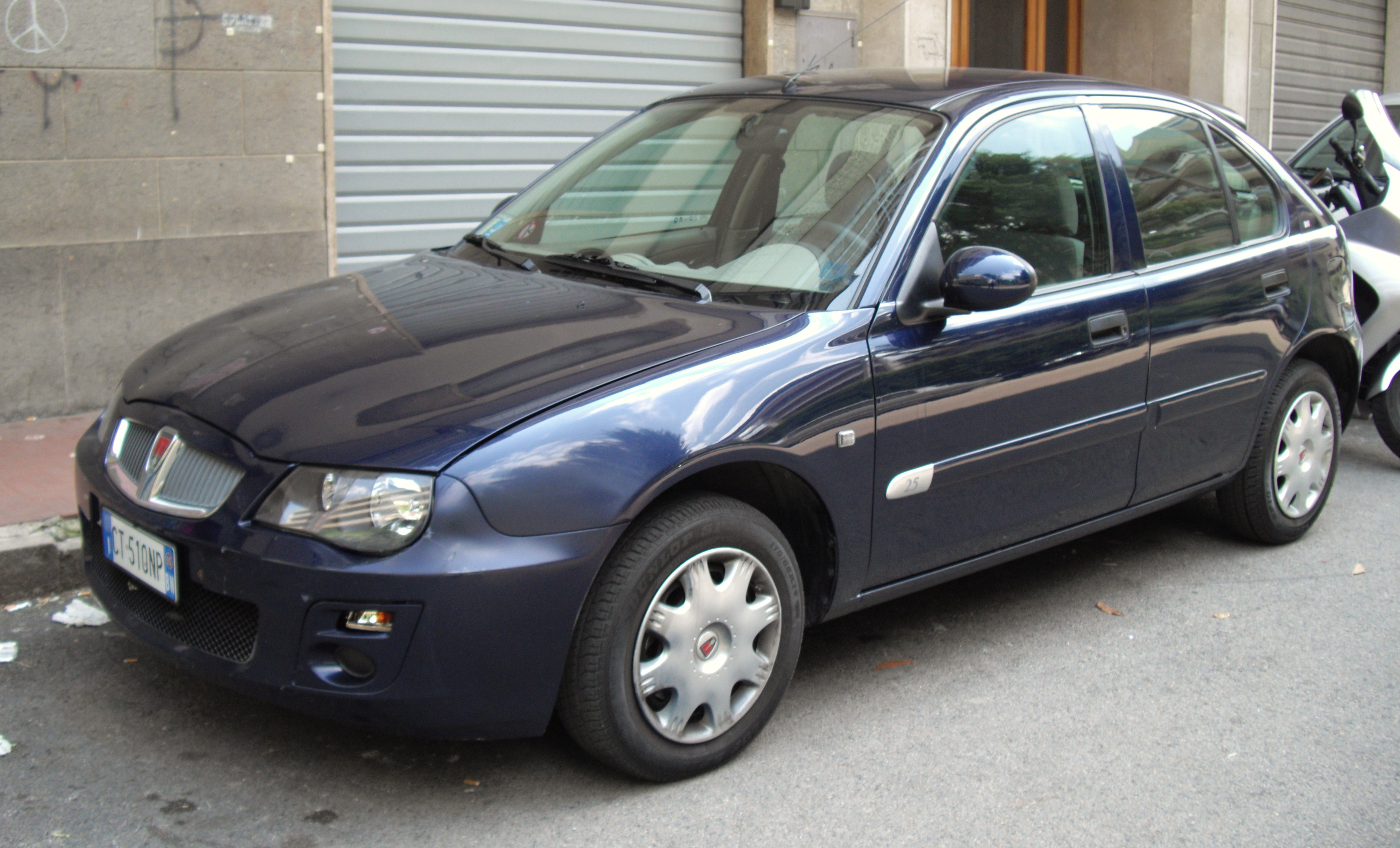 Rover 25